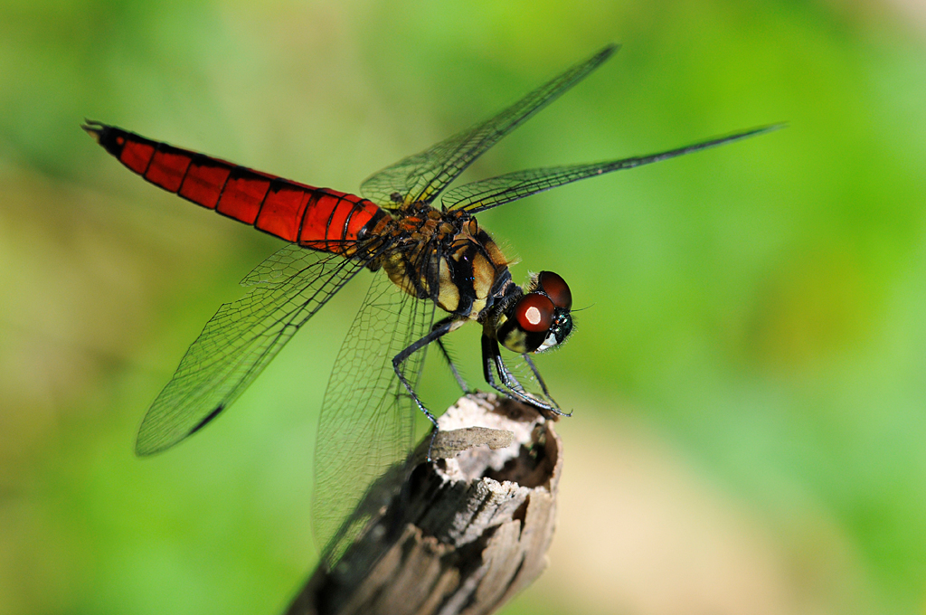 Forest Chaser